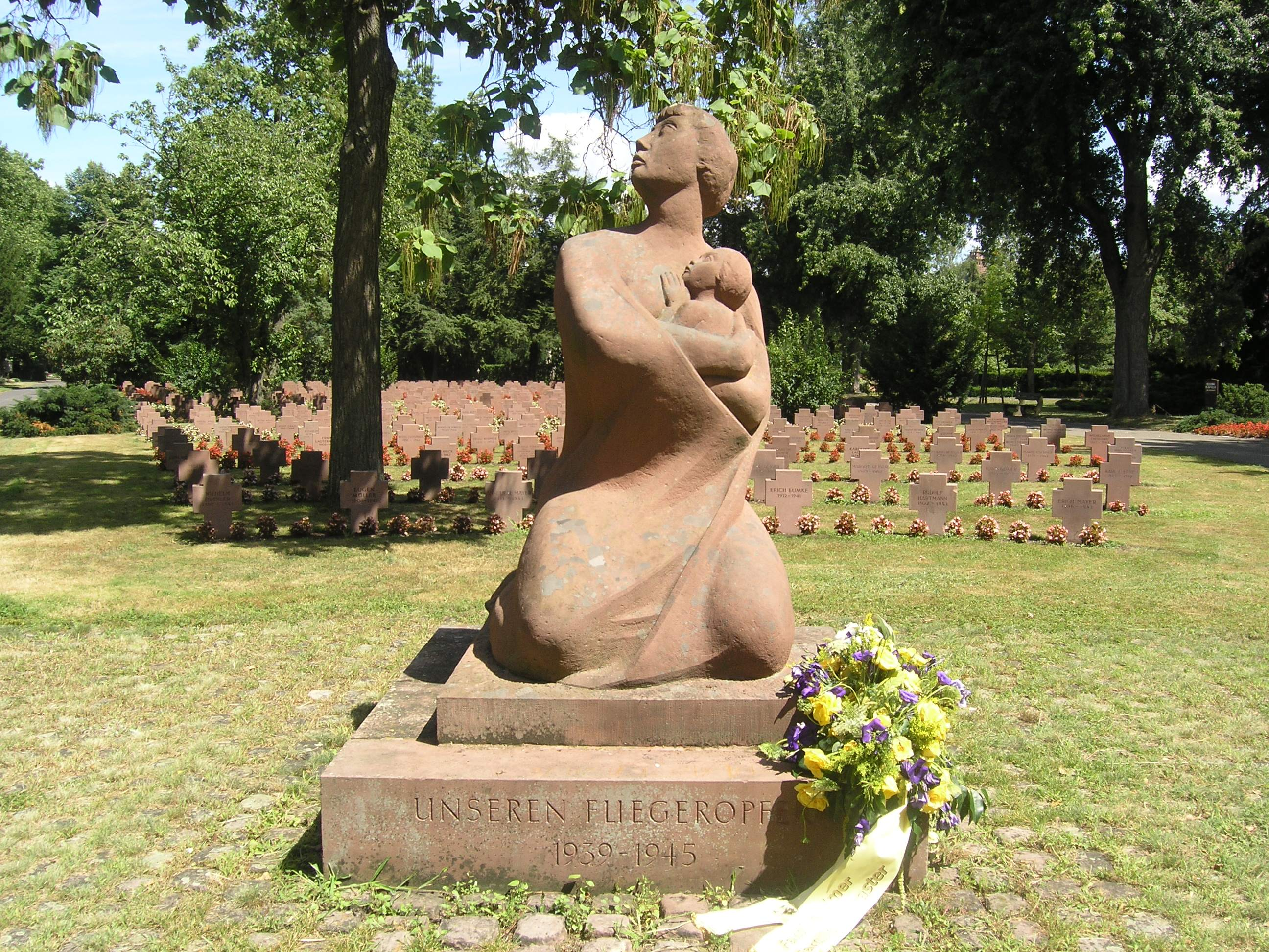 Memorial for and graves of victims of aerial warfare in World War II at Karlsruhe